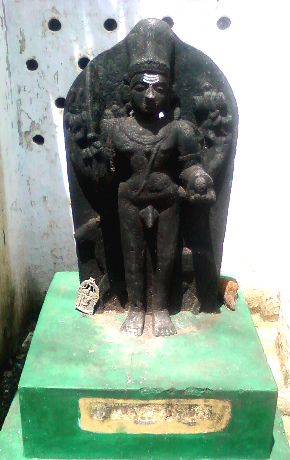 Kalabhairava Statue at Lord Shiva Temple in Adavivaram, Simhachalam